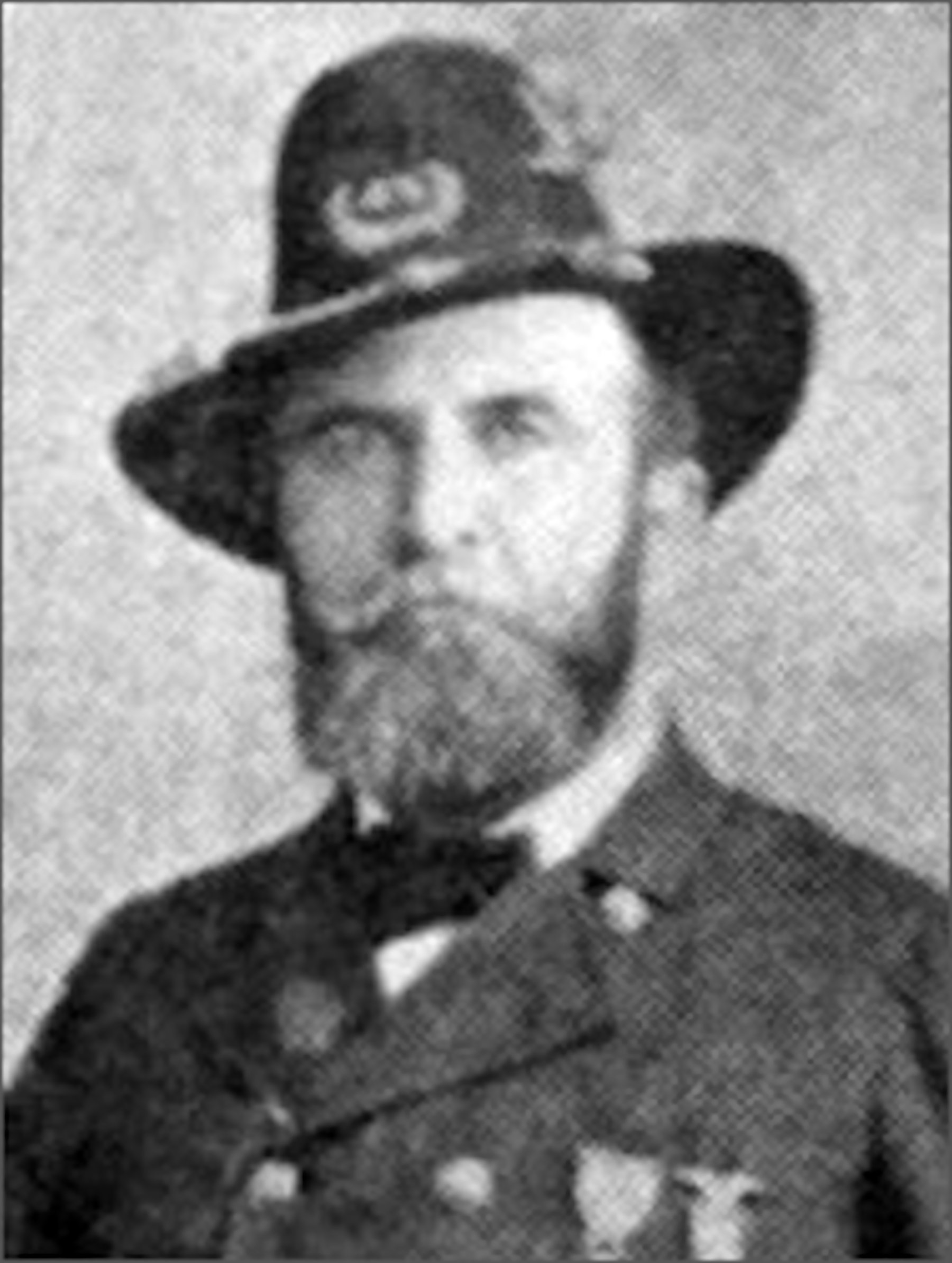 MoH winner Leonidas H. Inscho